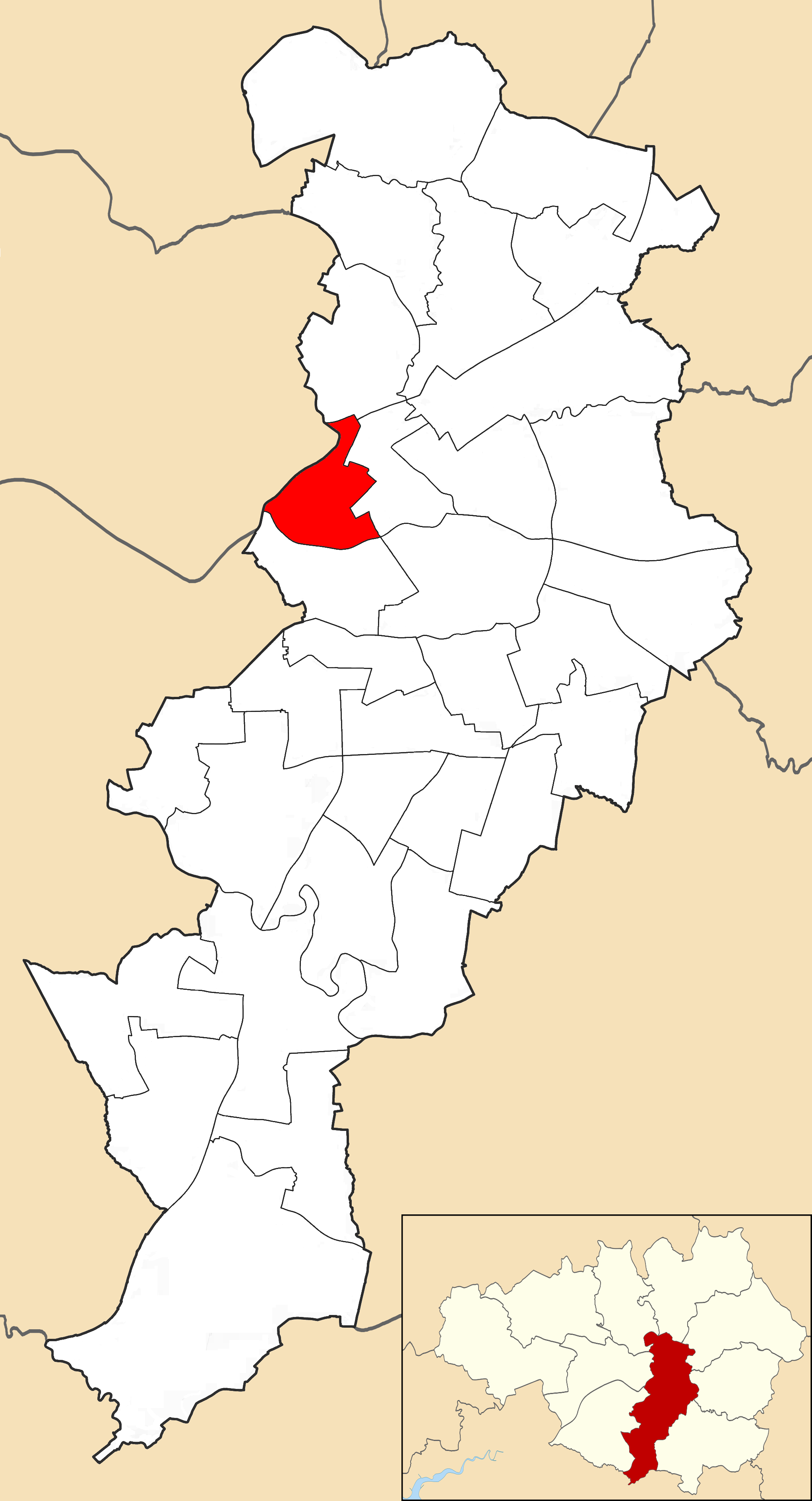 Map showing location of Deansgate ward within Manchester City Council.